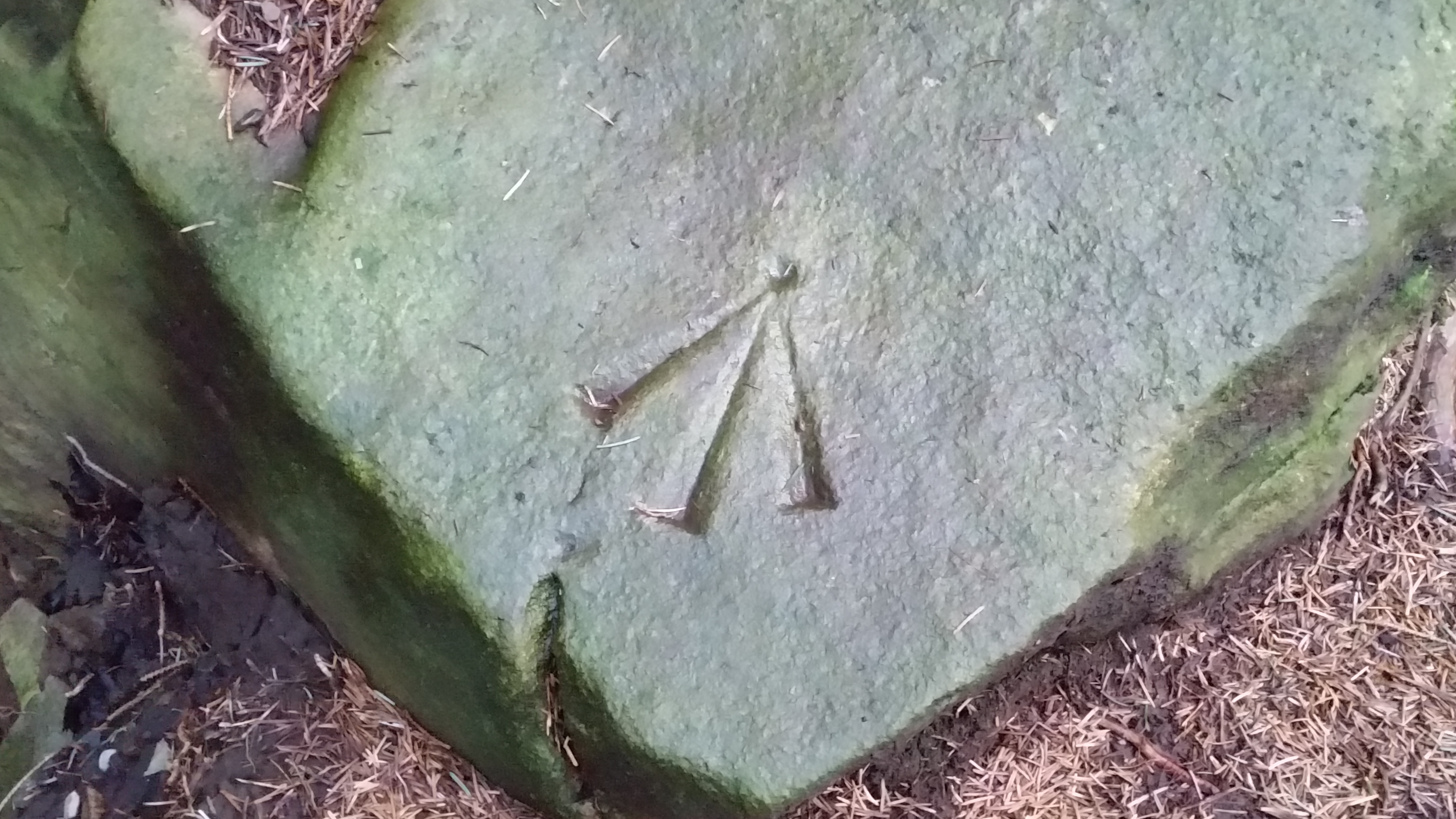 An early Ordnance Survey benchmark - not the usual mark as not on a vertical face